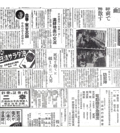 A news paper reported Park Chung-hee swore with blood as a military officer of Manchukuo